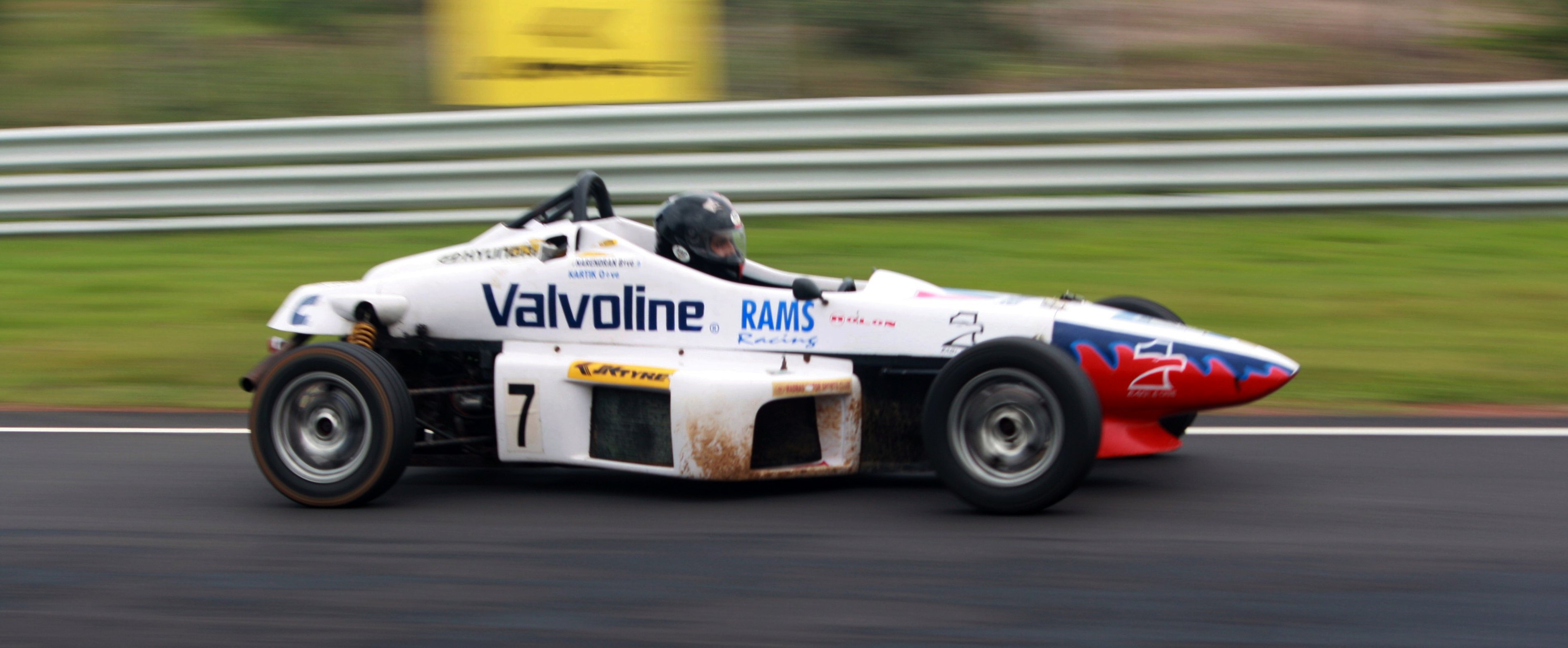 A Rams Racing Formula LGB HYundai at MMSC racetrack.